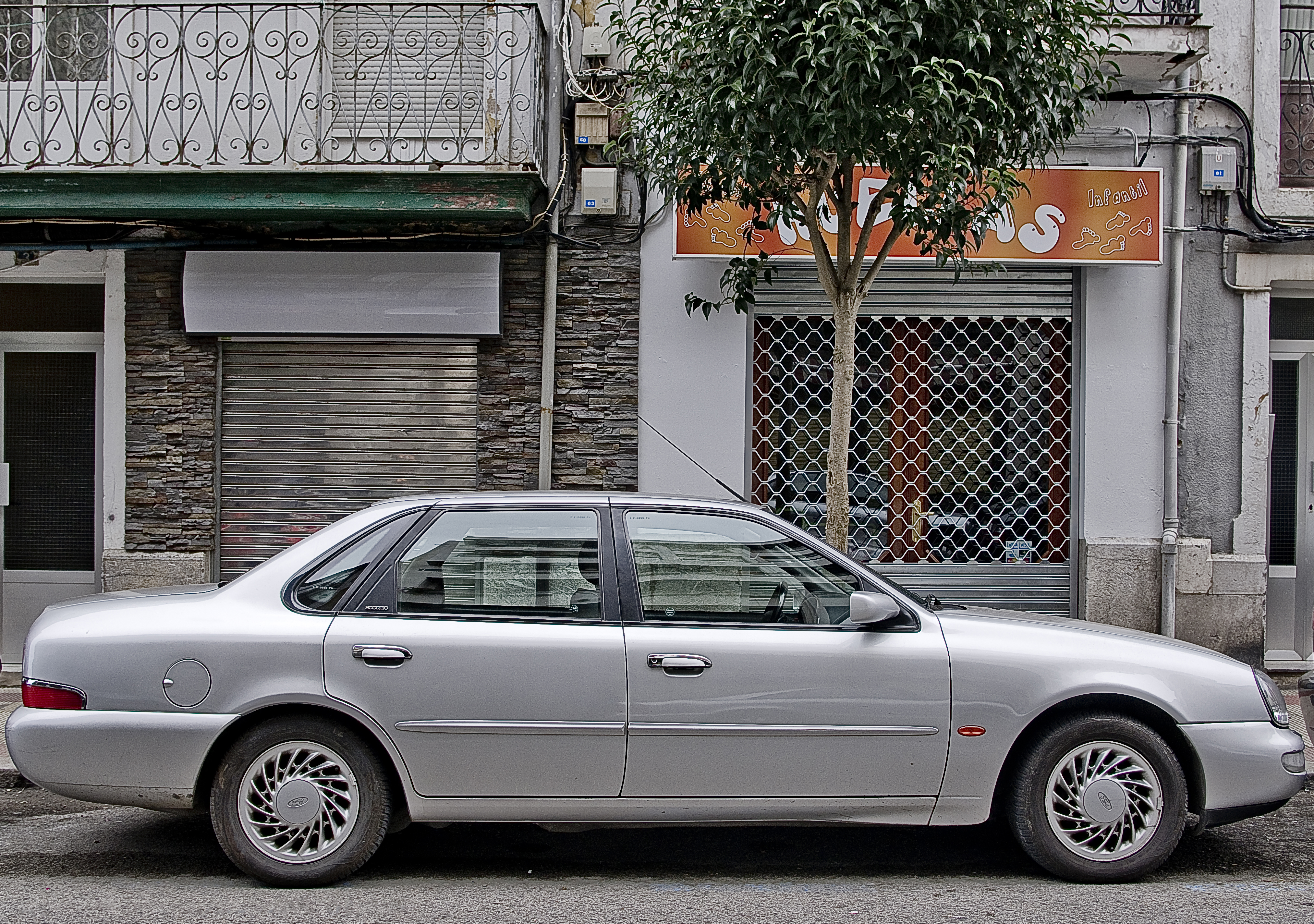 Want.